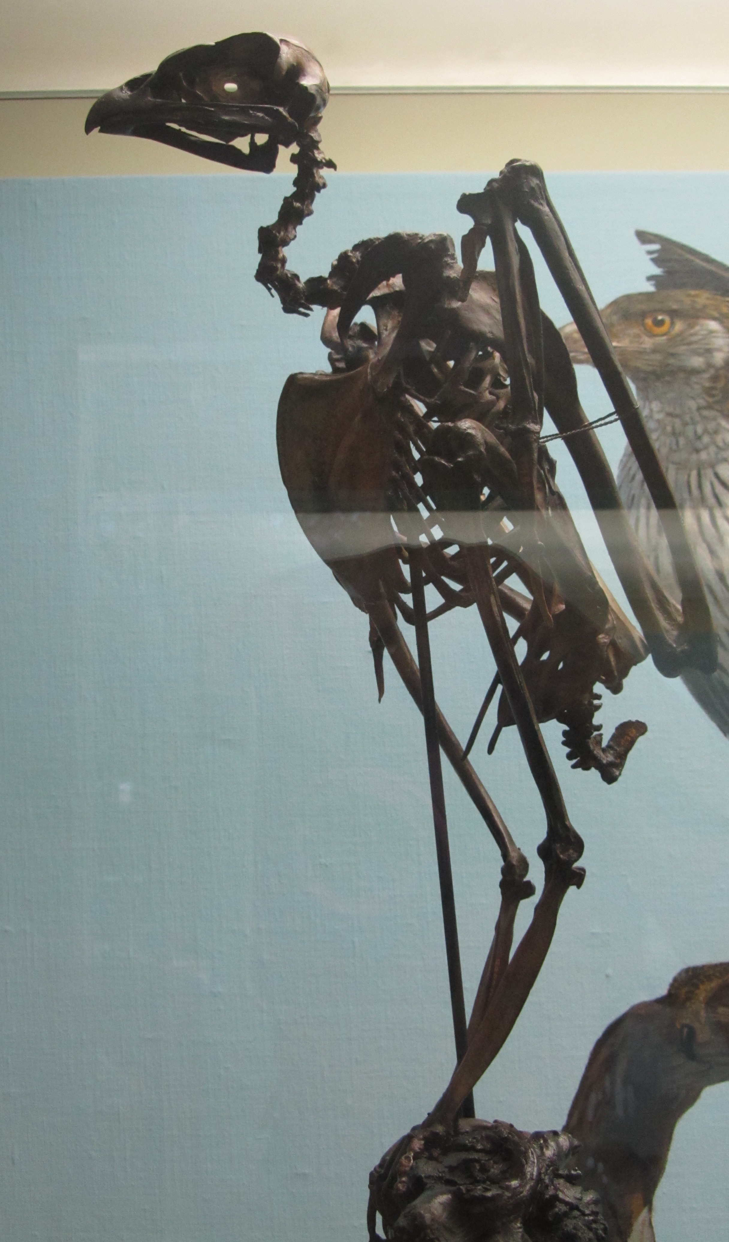 Buteogallus fragilis fossil specimen, La Brea tar pits